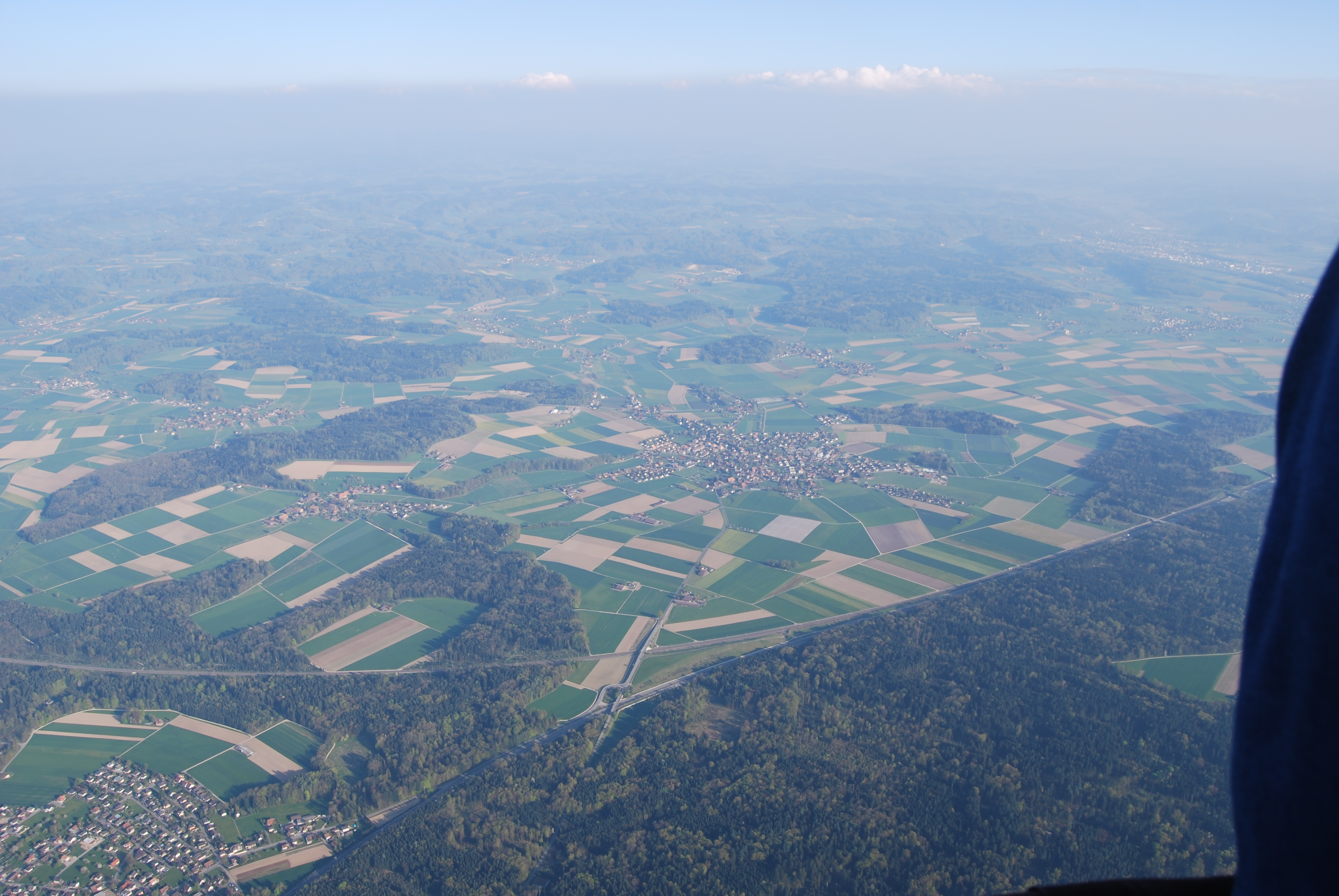 Koppigen, canton of Bern, Switzerland; at left Recherswil, canton of Solothurn